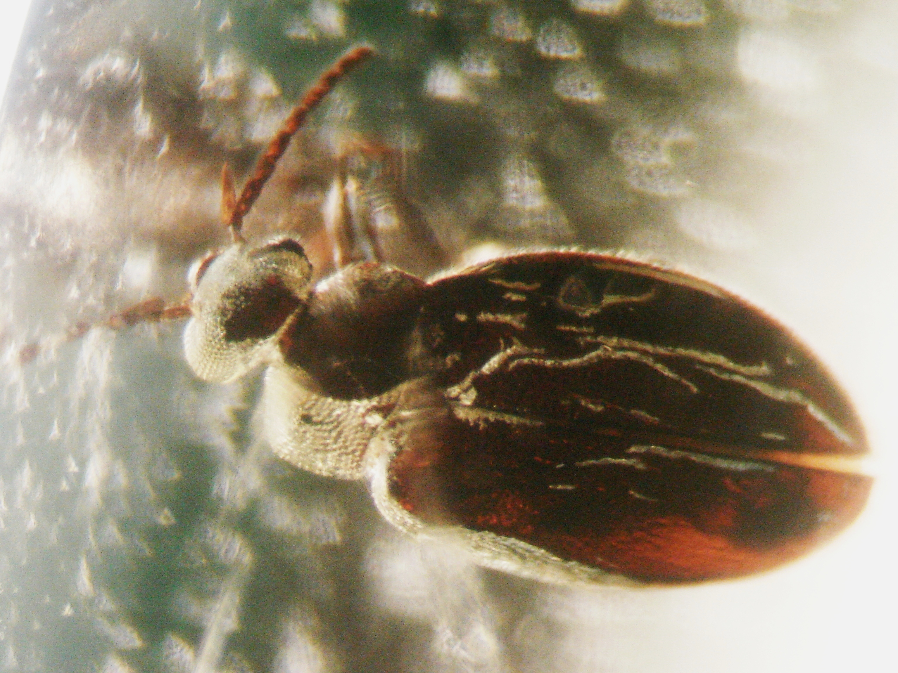 Baltic amber inclusions - 50 million years old - Coleoptera, Scraptiidae, ...? Picture "Baltic amber Coleoptera Scraptiidae 7" show the other side Picture "Baltic amber Coleoptera Scraptiidae 8" show a close-up on head